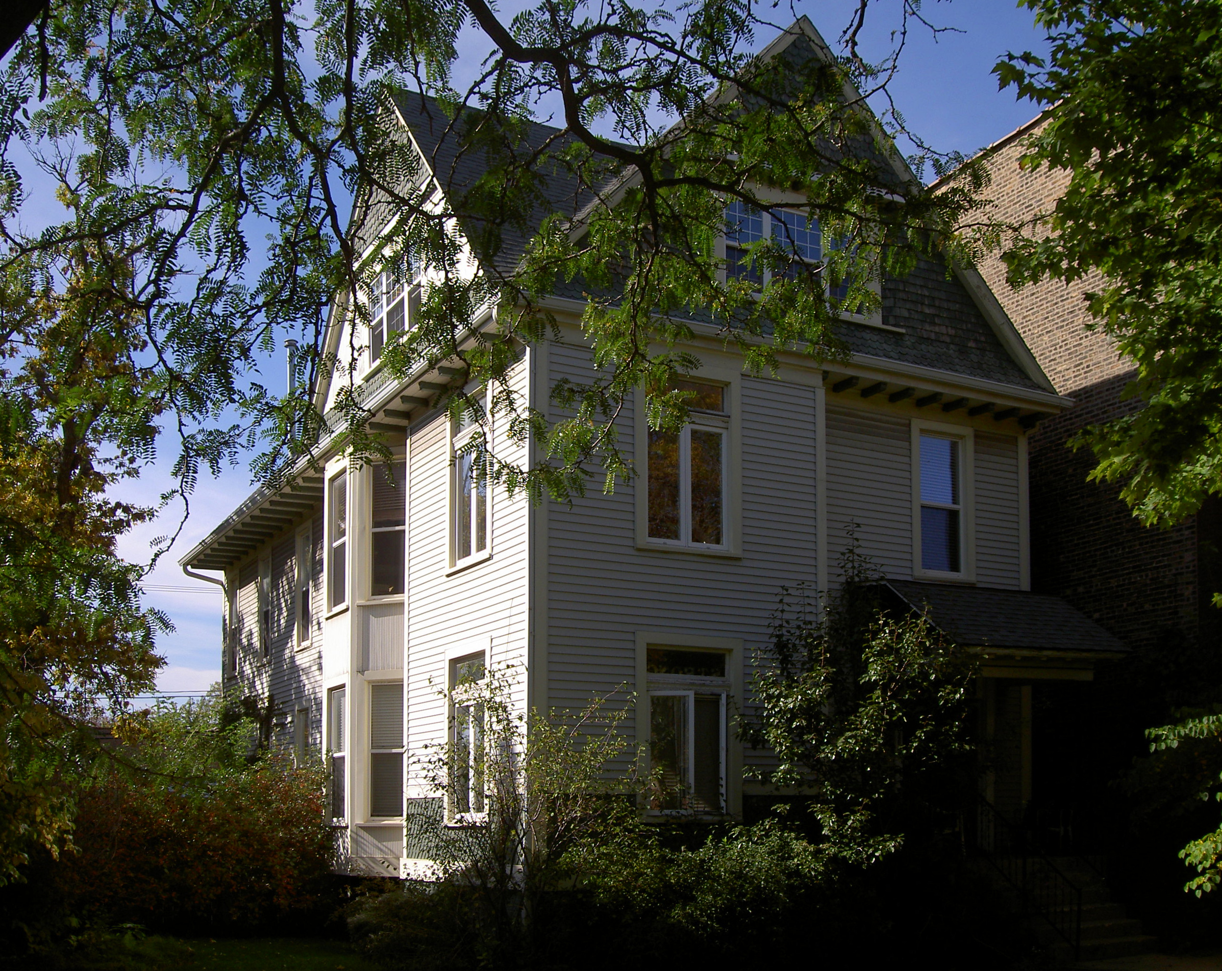 Carl Sanburg's house where he lived while he wrote the poem Chicago. Now a Chicago landmark.